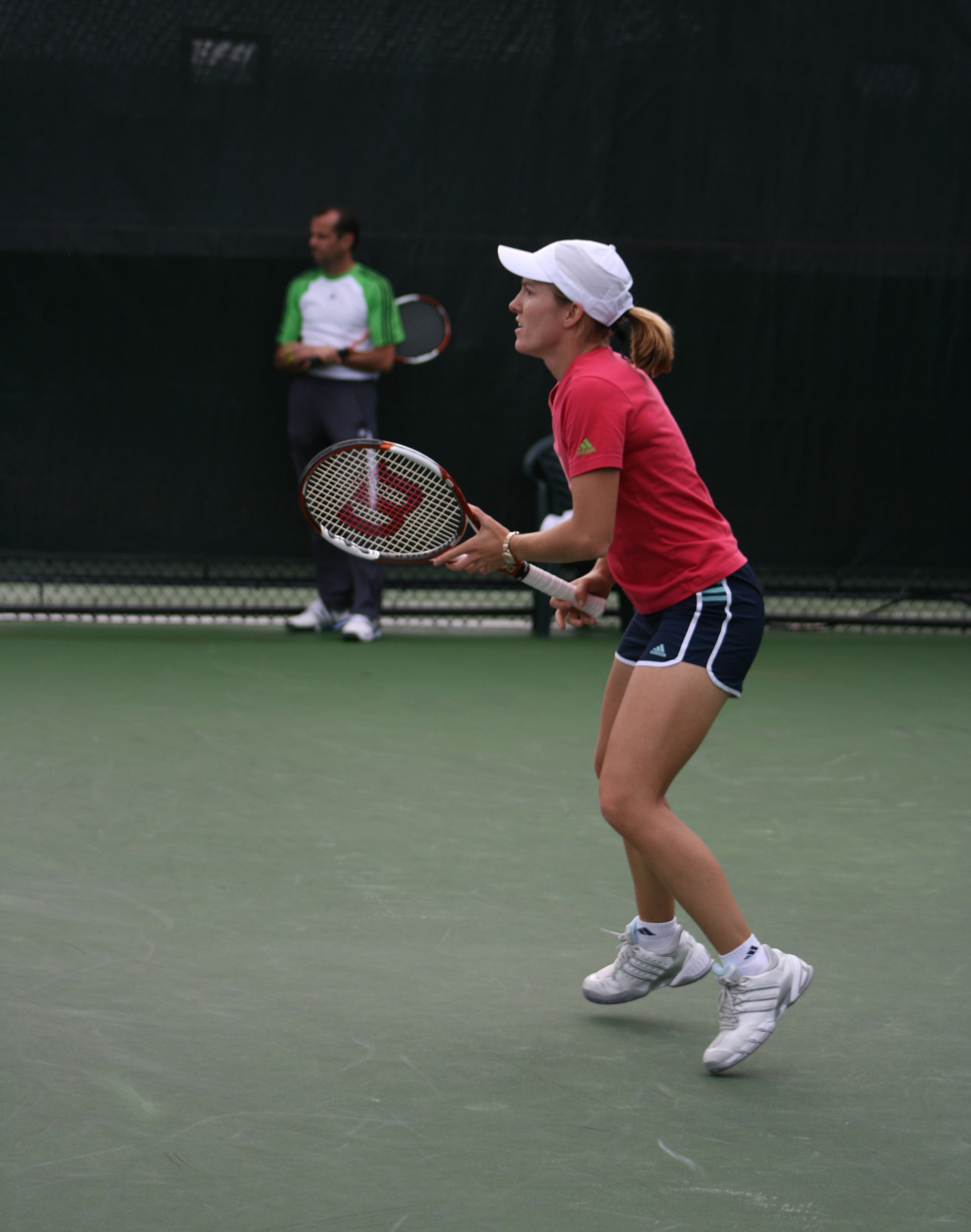 Justine Henin (formerly Justine Henin-Hardenne) at the Sony